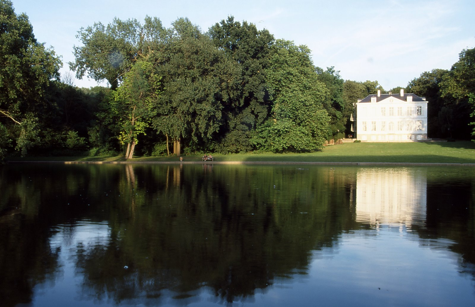 A view of Park Malou